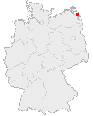 Peenemünde in Germany